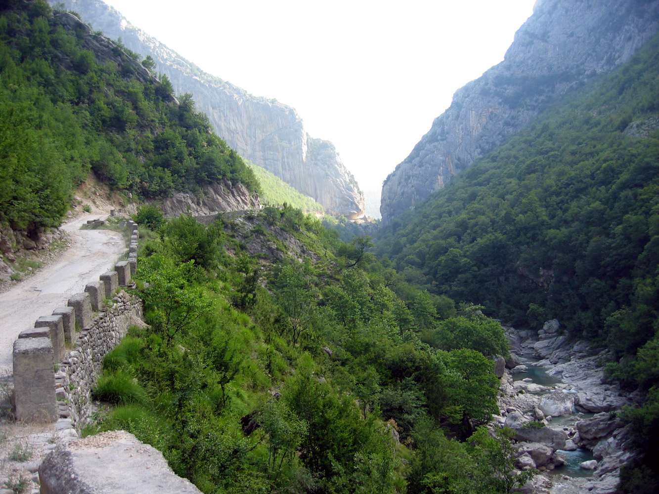 Gorge of Tirana River north of Dajti Mountain and road to the village of Zall Dajti